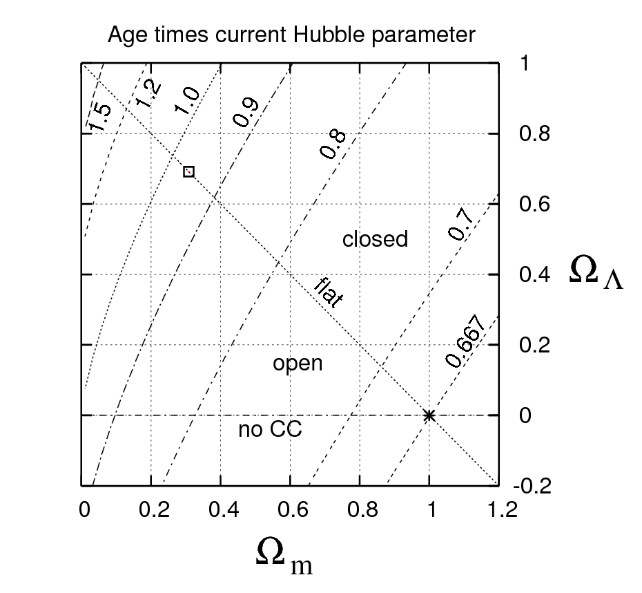 A plot of the age of the universe as a function of some important cosmological parameters. The product of the age and the current Hubble parameter is a function of other cosmological parameters, describing the matter density, cosmological constant density, etc. Contours of this function are plotted as a function of the two most important parameters. The Planck best-fit value (as of 2013) for these parameters is denoted by a box in the upper left, and the matter-only universe is denoted by an asterix in the lower right. I have created this new file modifying user Wesino's file according to the new cosmological parameters' values announced by ESA for the year 2013.